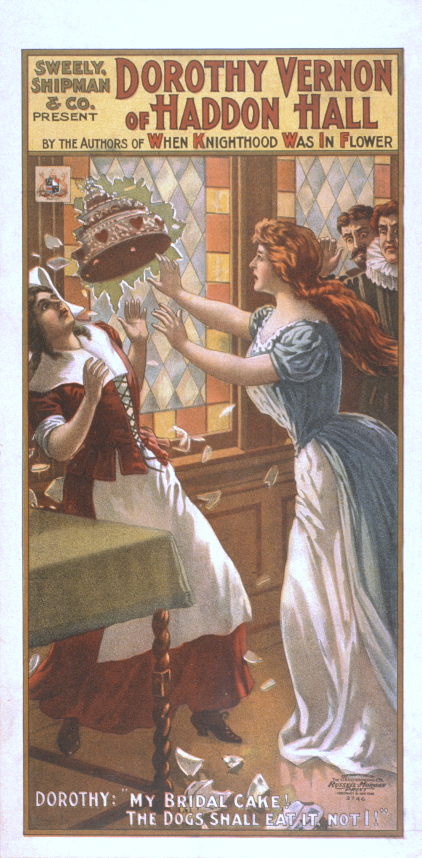 Sweely, Shipman & Co. present Dorothy Vernon of Haddon Hall. Poster for theater production.